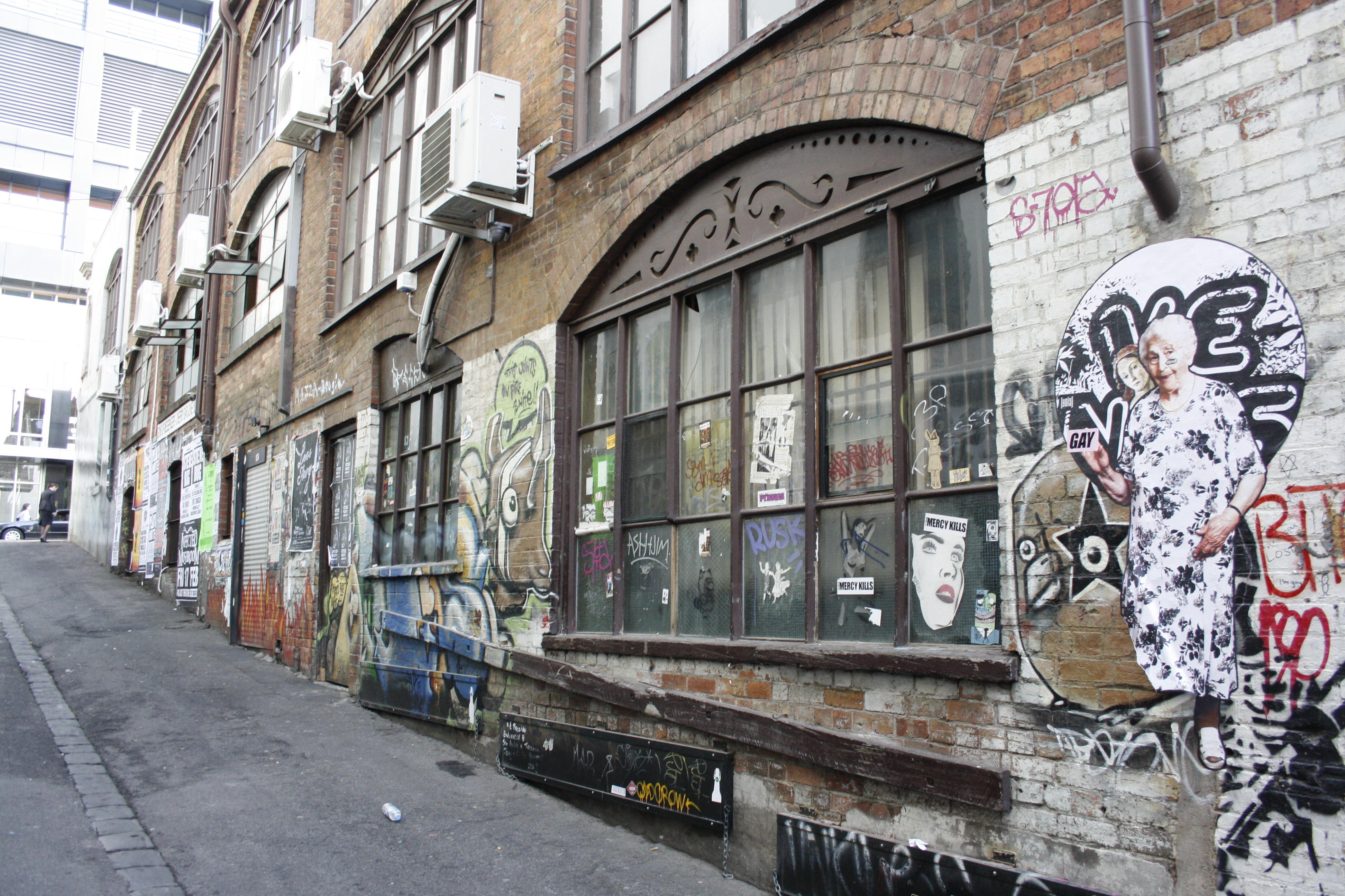 ACDC Lane, looking at the entrance to the Cherry bar. Melbourne